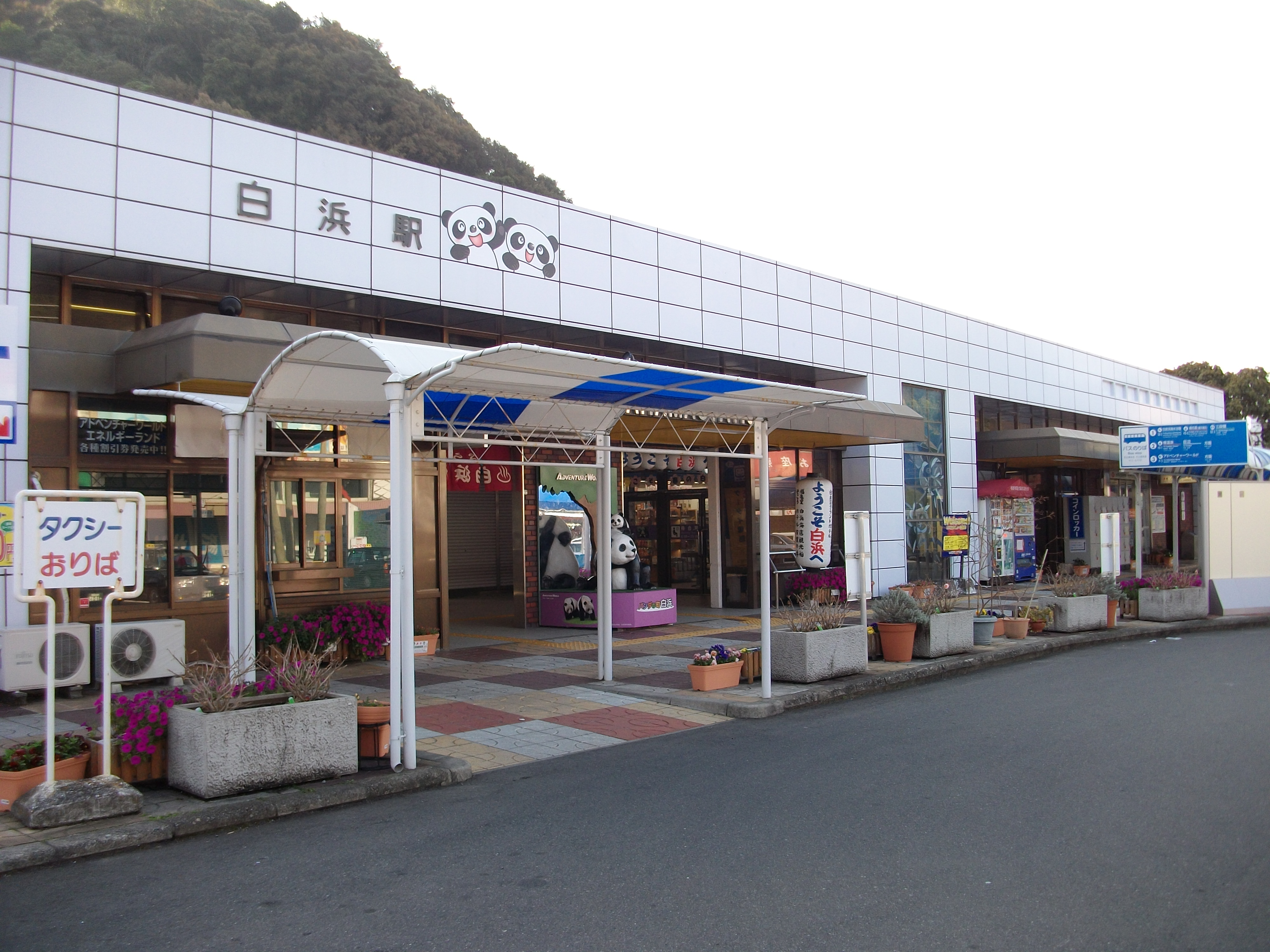 Shirahama Station on Kisei Main Line